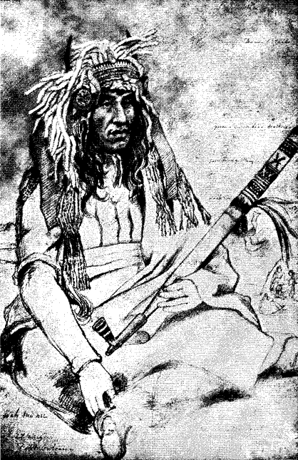 Dakota Chief Ta-oya-te-duta, known in English as Little Crow, sketched at Traverse des Sioux, Minnesota Territory The artist describes Little Crow as follows: The chief [Little Crow] is a man of some forty five years of age & of a very determined and ambitious nature, but withal exceedingly gentle and dignified in his deportment. His face is full of intelligence when he is in conversation & his whole bearing is that of a gentleman. [1] [B]eing attired in state[, Little Crow] fulfilled his promise to me by sitting for his portrait. His headdress was peculiarly rich, a . . . diadem of rich work rested on his forehead & a profusion of weasel tails fell from this to his back & shoulders. Two small buffalo horns emerged on either side from this mass of whiteness, & ribbons & a singular ornament of strings of buckskin tied in knots & colored gaily depended in numbers from his head to his shoulders & chest. [2]